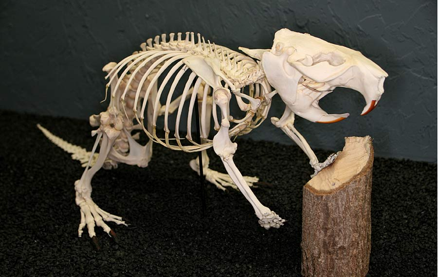 Beaver Skeleton, Castor canadensis, at The Museum of Osteology.